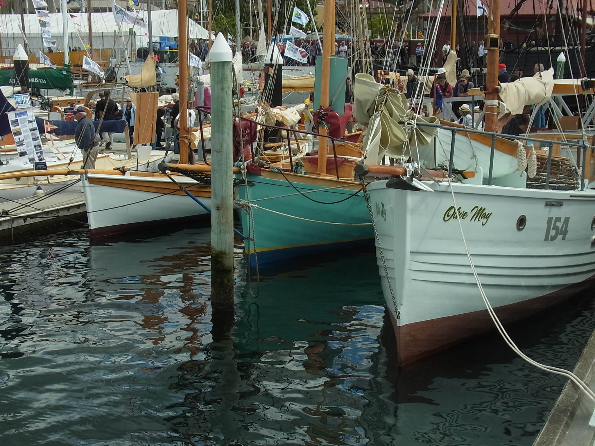 wooden boats in Constitution Dock Hobart 2013